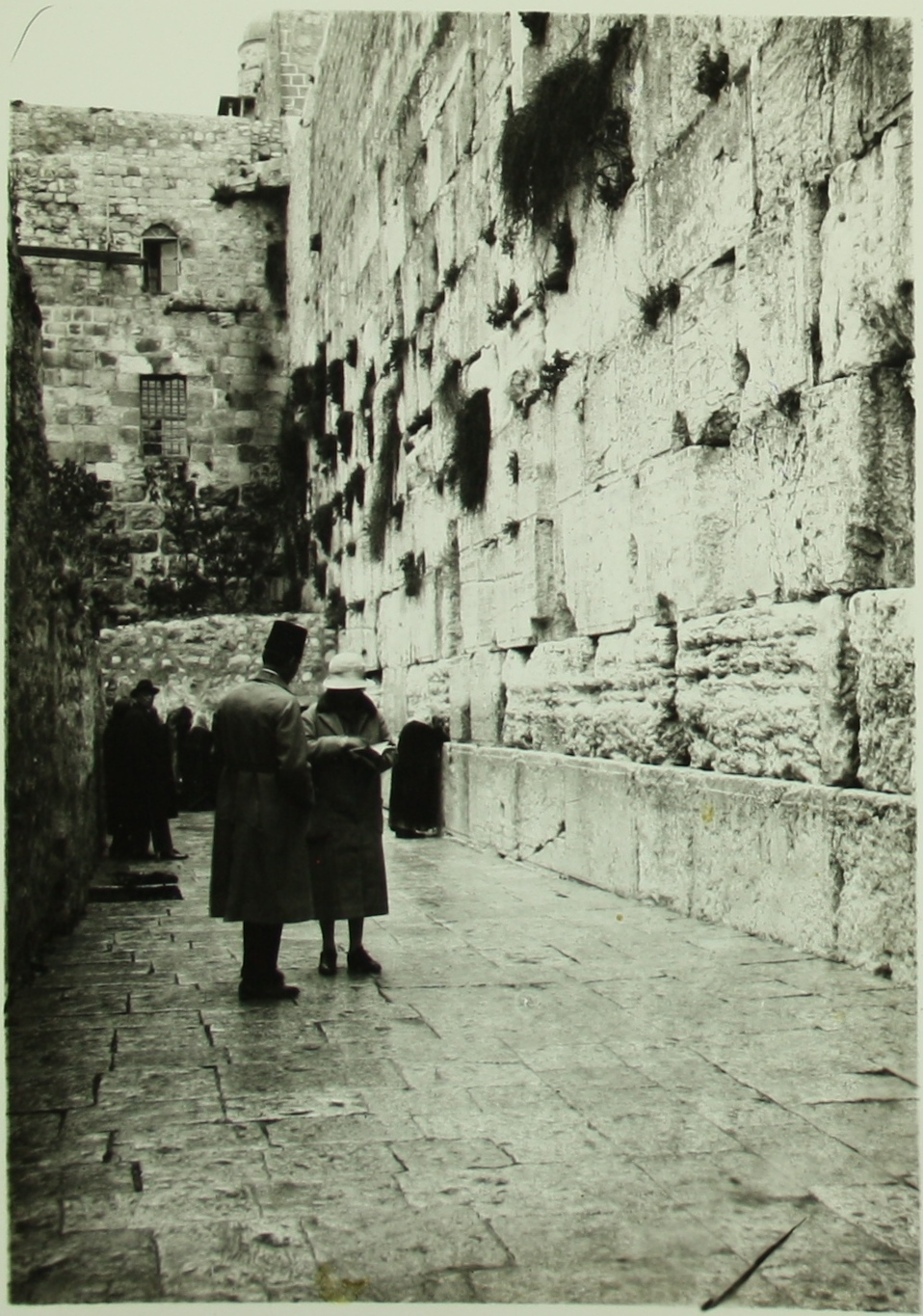 Historical images of the Western Wall, 1920